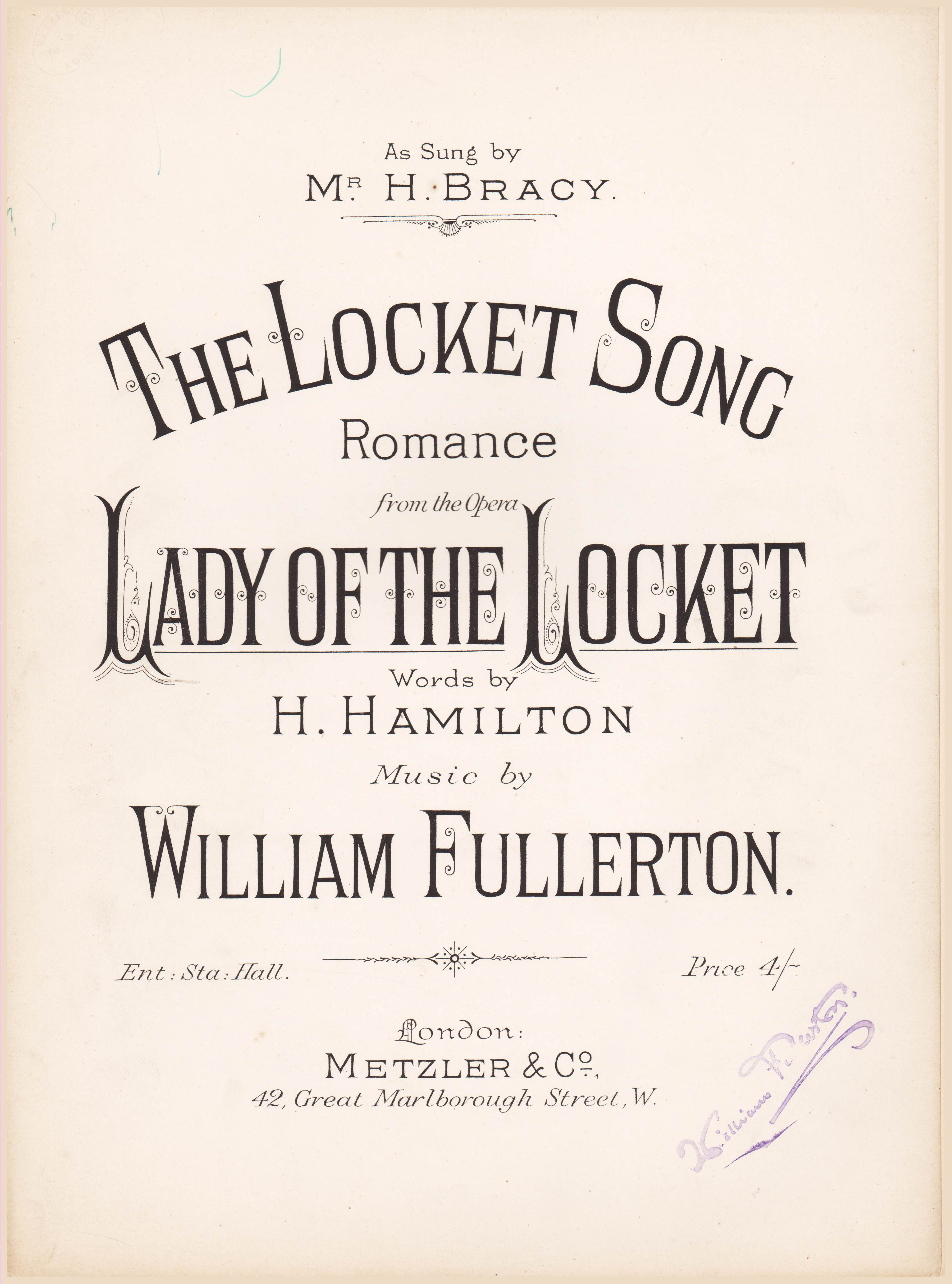 Cover page for original 1885 sheet music of "The Locket Song" from operetta "The Lady of the Locket".